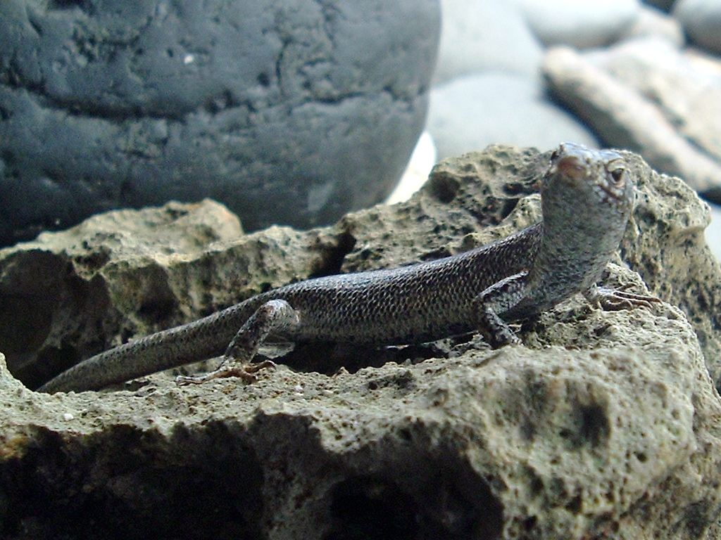 Picture of the lizard Trachylepis atlantica taken on Fernando de Noronha island in Brazil.